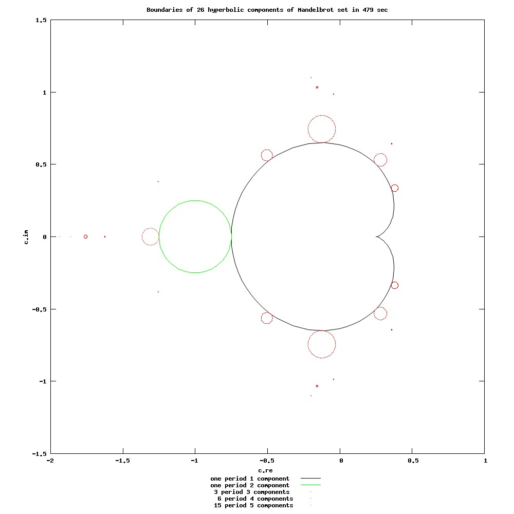 Boundaries of Components of Mandelbrot set by Newton method